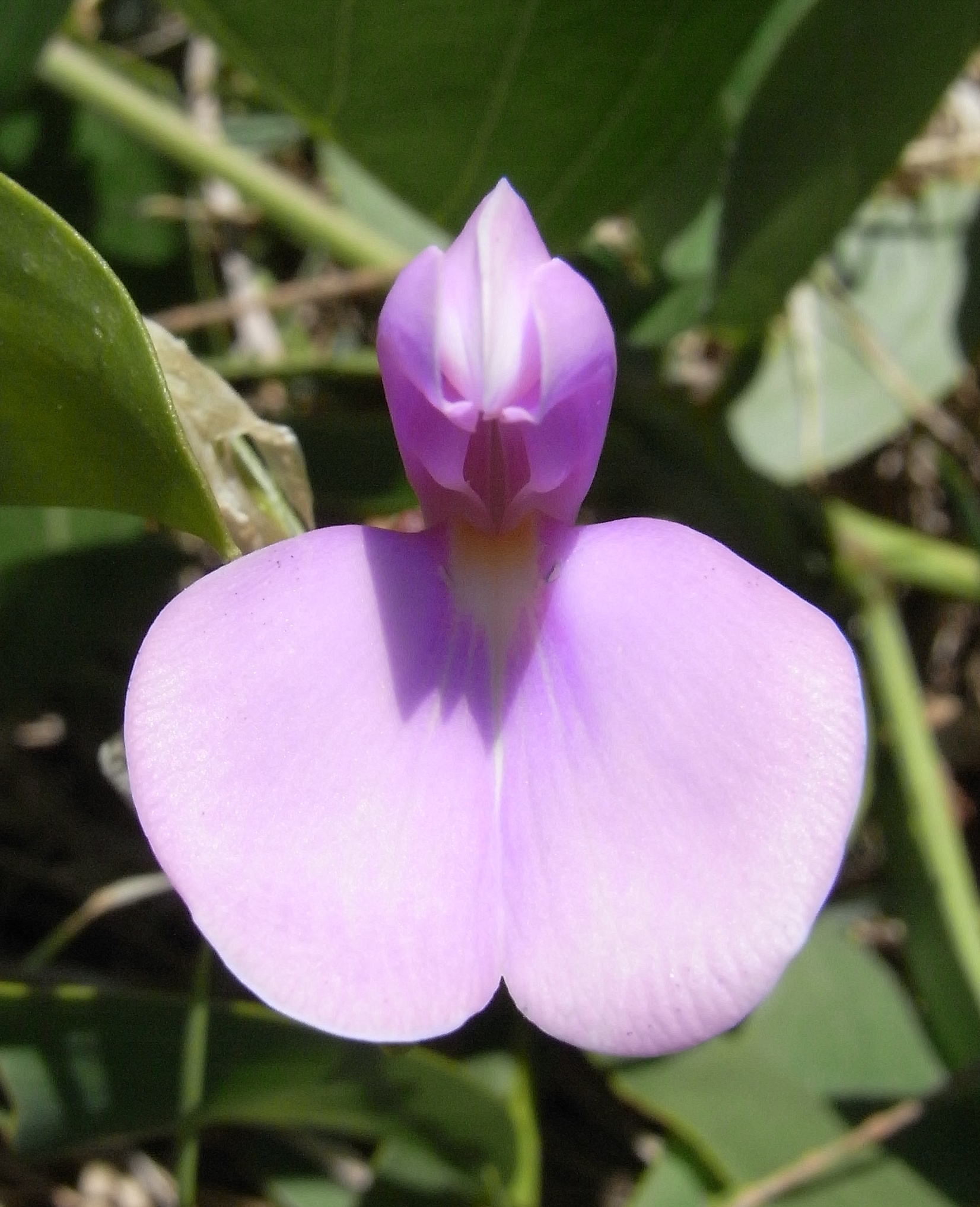 Bay Bean (Canavalia rosea) near Woody Head, Bundjalung National Park, Australia.